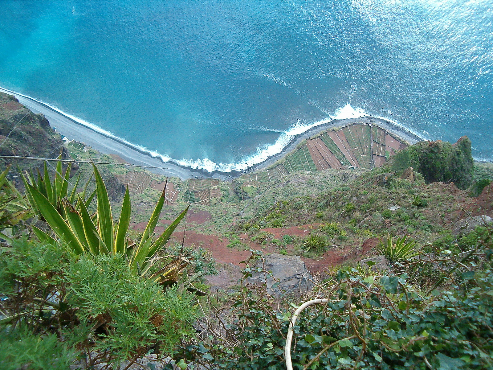 Cabo_Girão._Downstrem_View